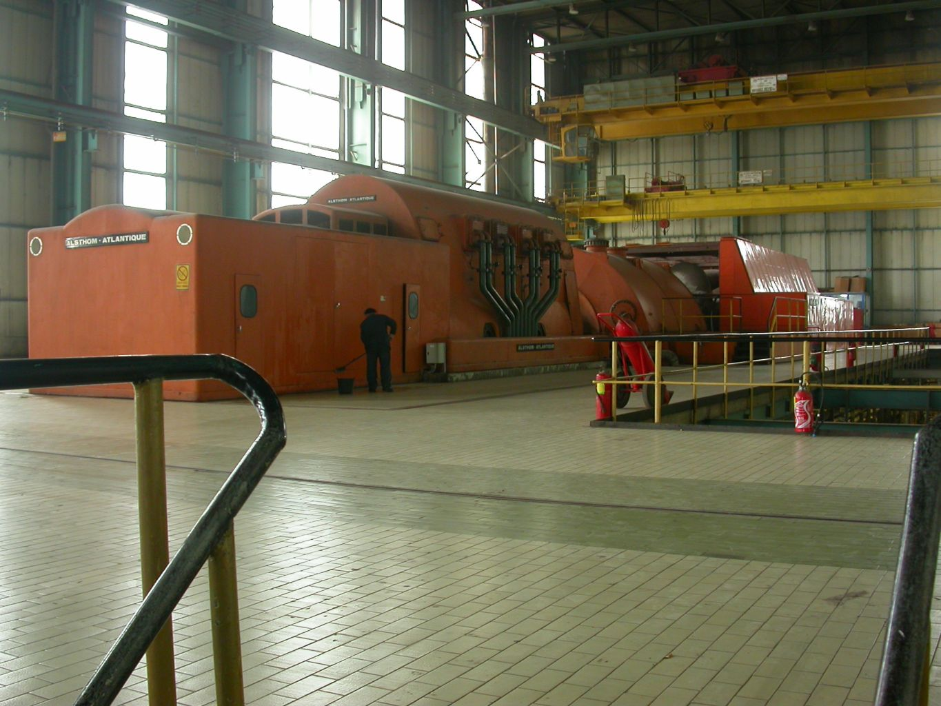 Pristina, Brown Coal Power Station Kosovo B, Generator 2 (340 MW)